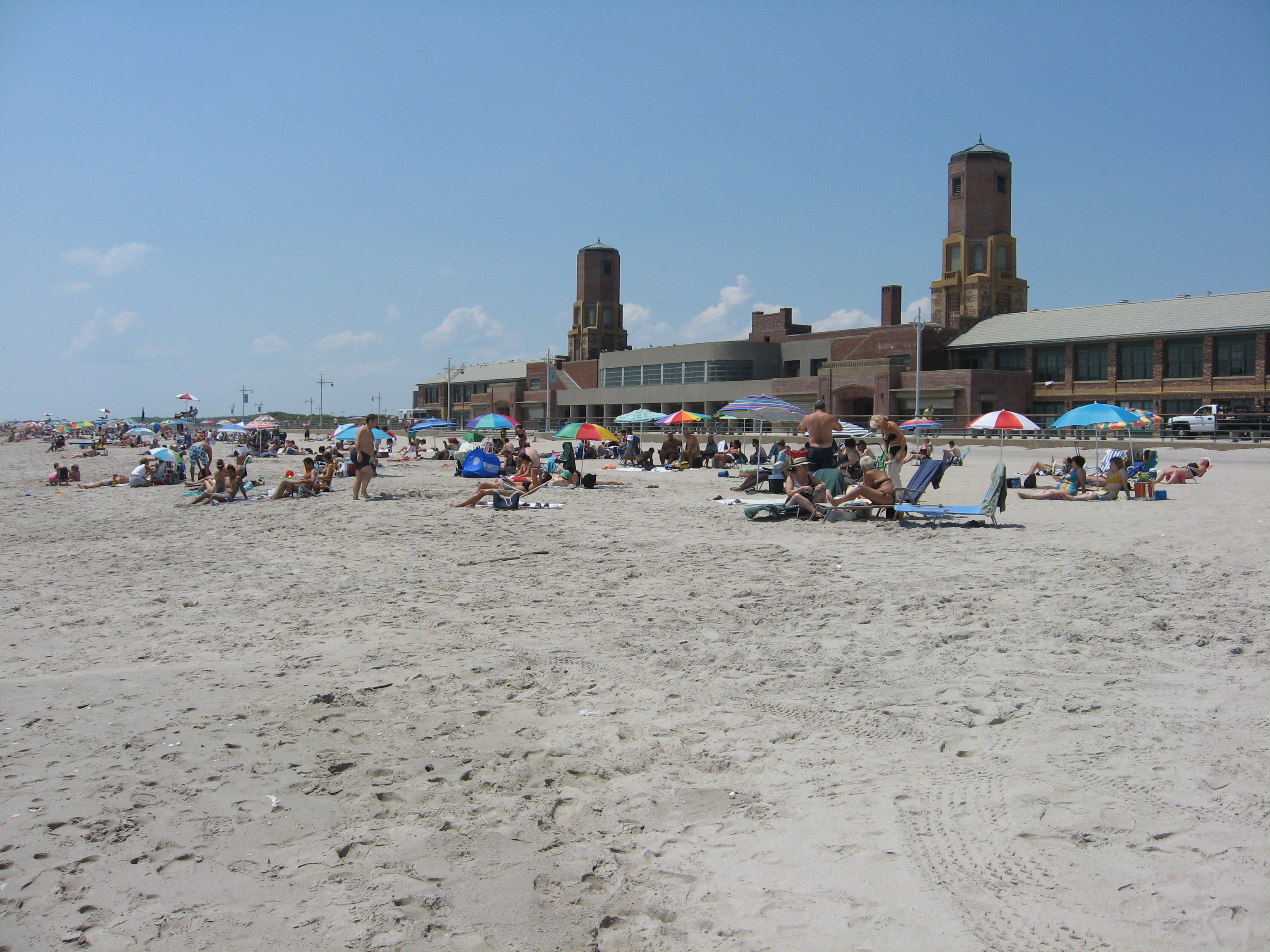 Jacob Riis Park, park of the Jamaica Bay Unit of Gateway National Recreational Area and a National Historic Place.